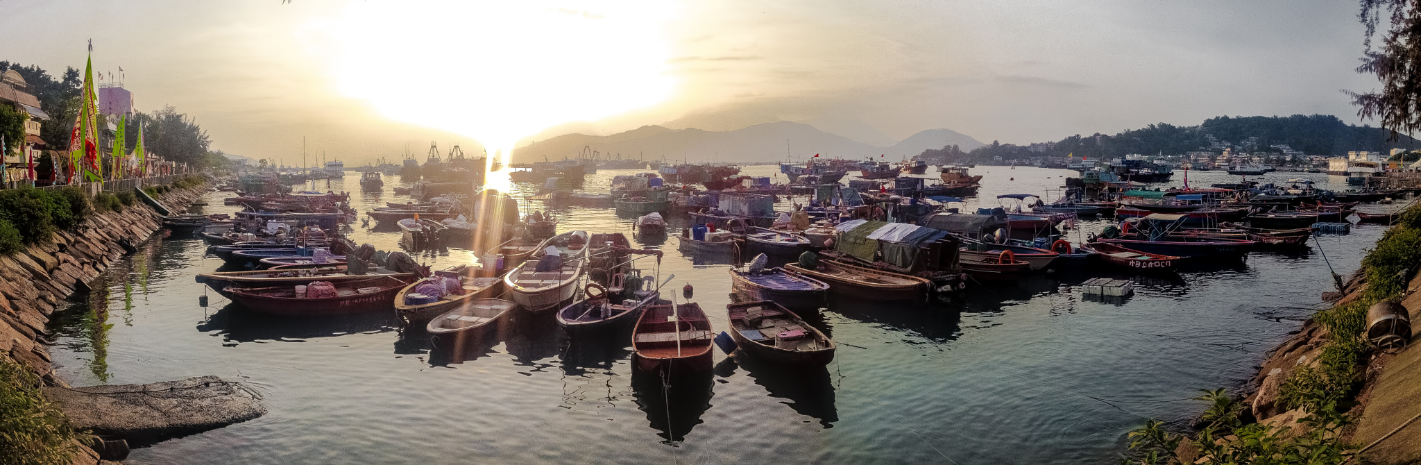 500px provided description: Pano Edit Edit [#sea ,#sunset ,#sun ,#boats ,#panorama ,#2016 ,#Hong Kong ,#June]